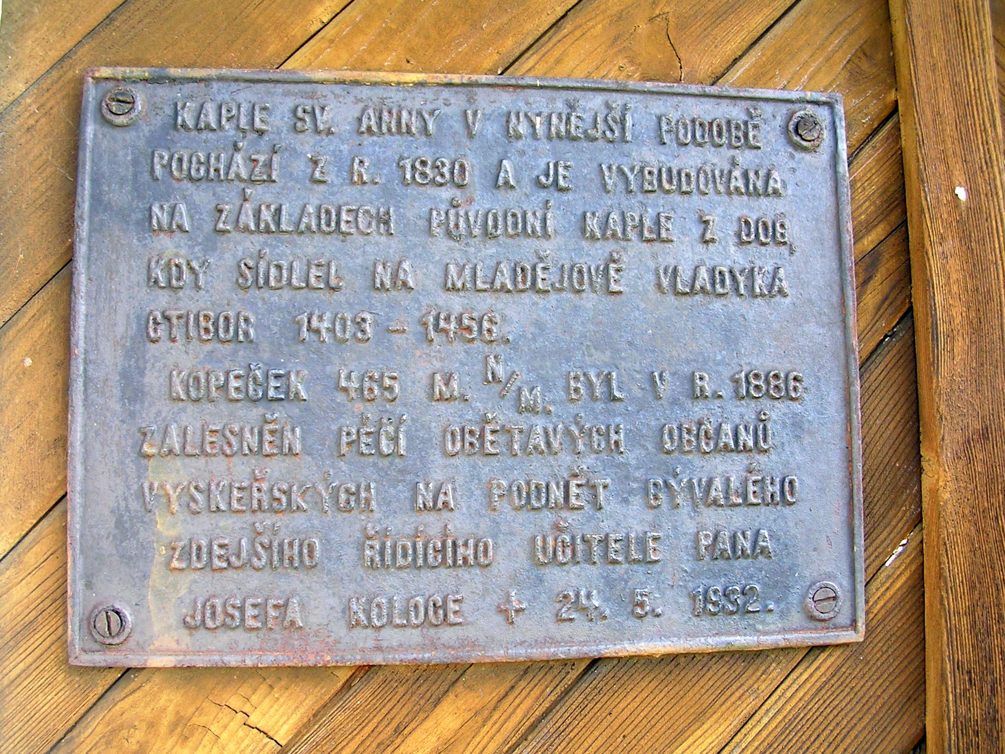 Vyskeř, Semily District, Liberec Region, the Czech Republic. The chapel of Saint Anne, infoboard at the south door.